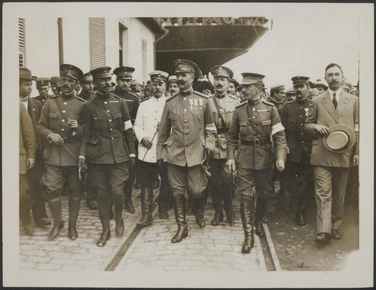 Colonel Christodoulou, the hero of the fighting at Serres where the Greek resisted the Bulgarian advance, arriving at Salonica with his men. His is the central figure (without belt) while General Zimbrakakis is alongside on the right